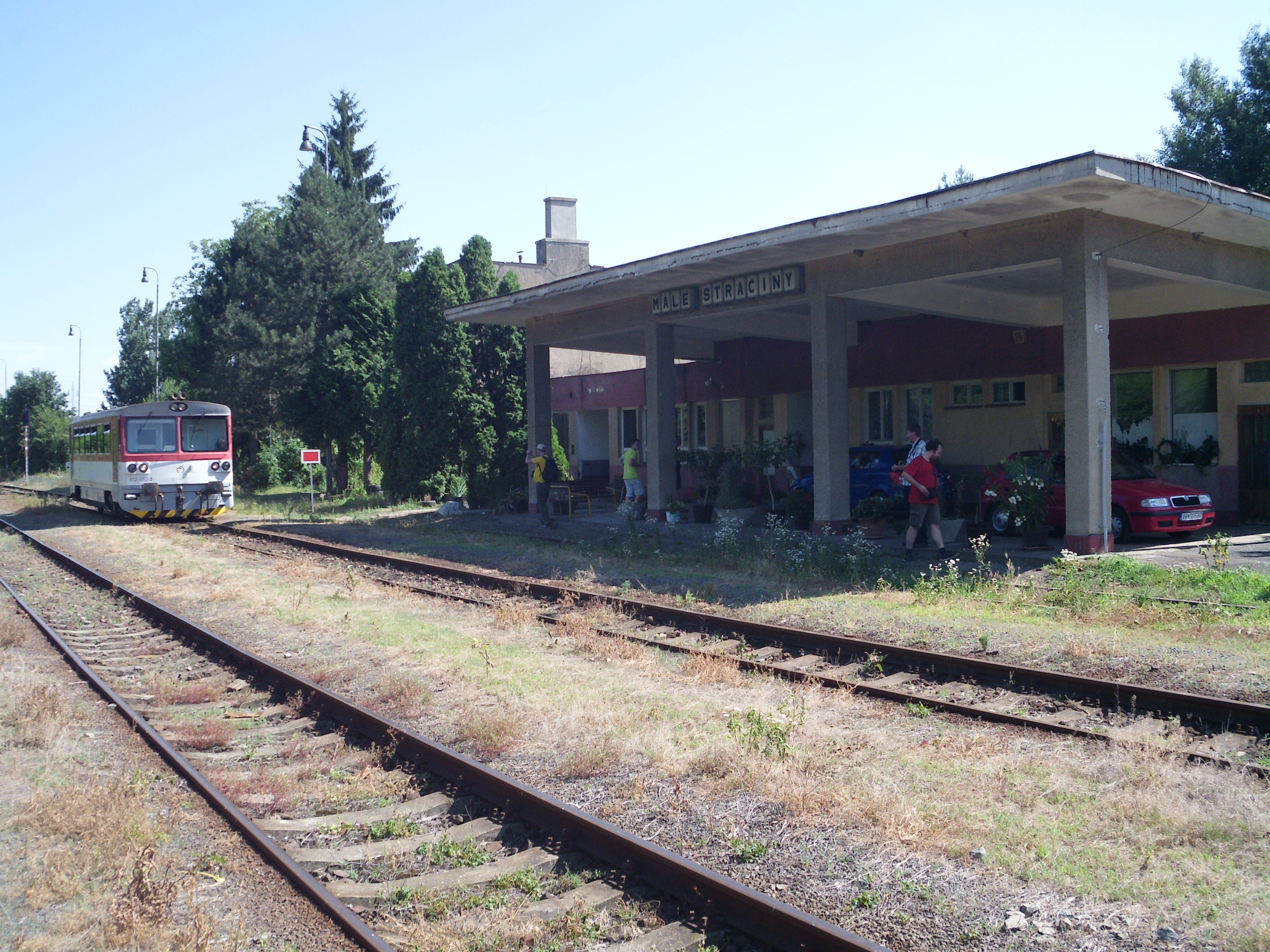 An 812-series diesel railcar of ZSSK at Malé Straciny station in Slovakia, on a route from Lučenec to Veľký Krtíš.